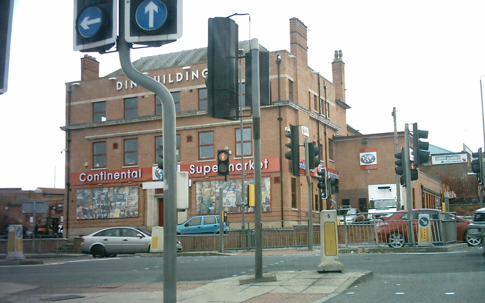 The continental supermarket occupying the old site of the Fforde Green, A58, Roundhay Road, Harehills.